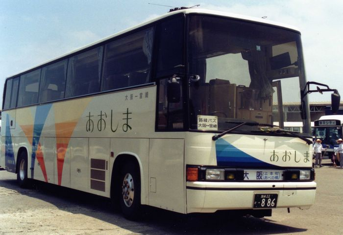 Miyazaki Kotsu "AOSHIMA" Hino P-RU638BB at Chuo Branch This picture is obtaining and photoing permission of the persons concerned.